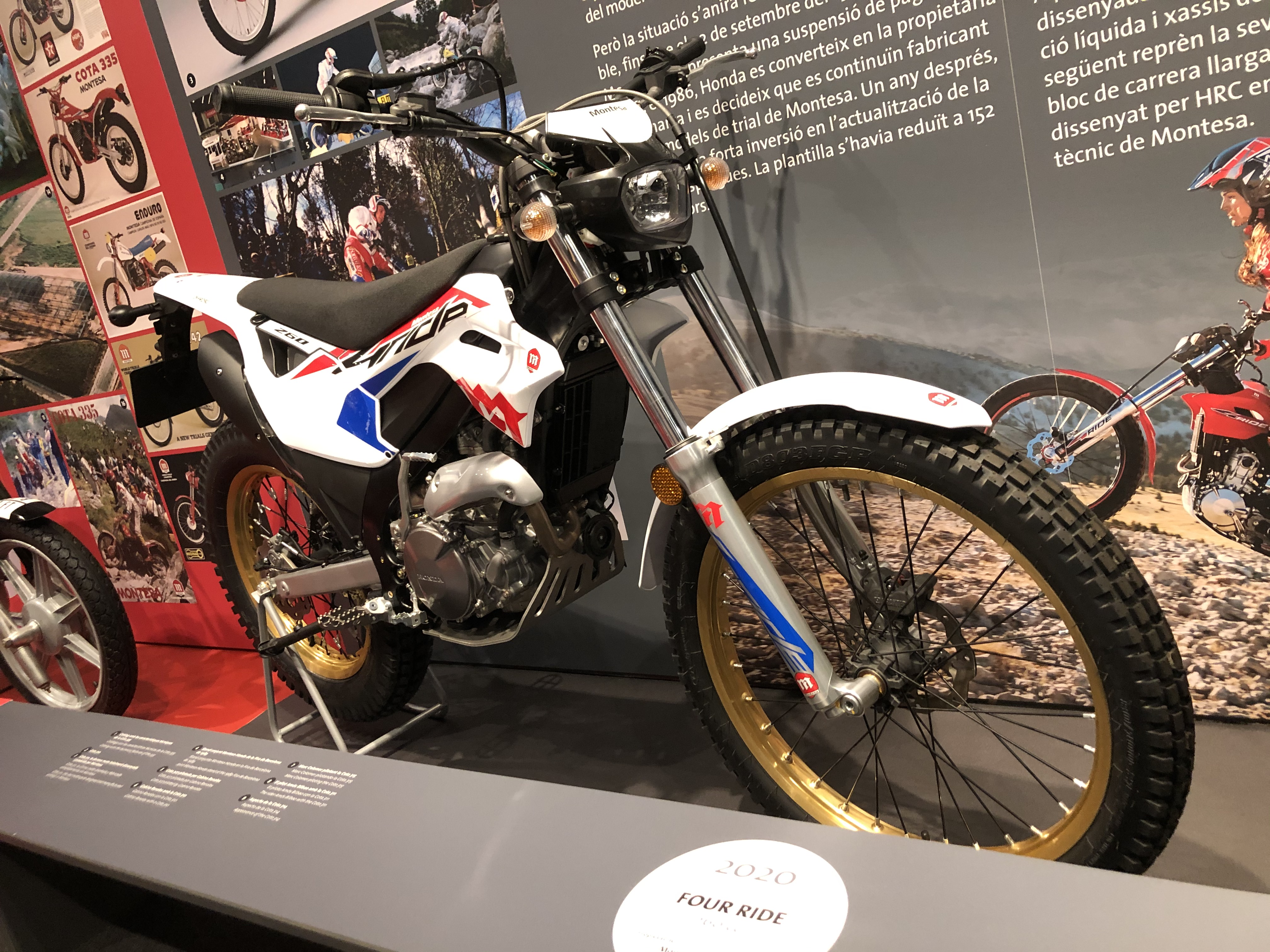 Montesa Four Ride 2020 260cc